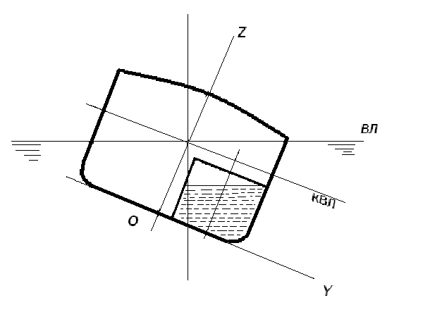 Ship flooding. Typical Case 4